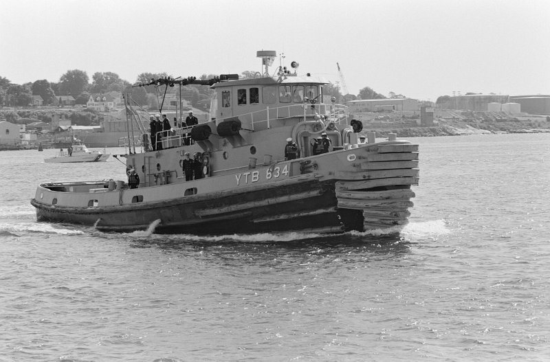 Starboard bow view of Negwagon (YTB-834) underway at the Naval Submarine Base, New London, CT., 6 October 1984 DVIC photo # DNSN8507379